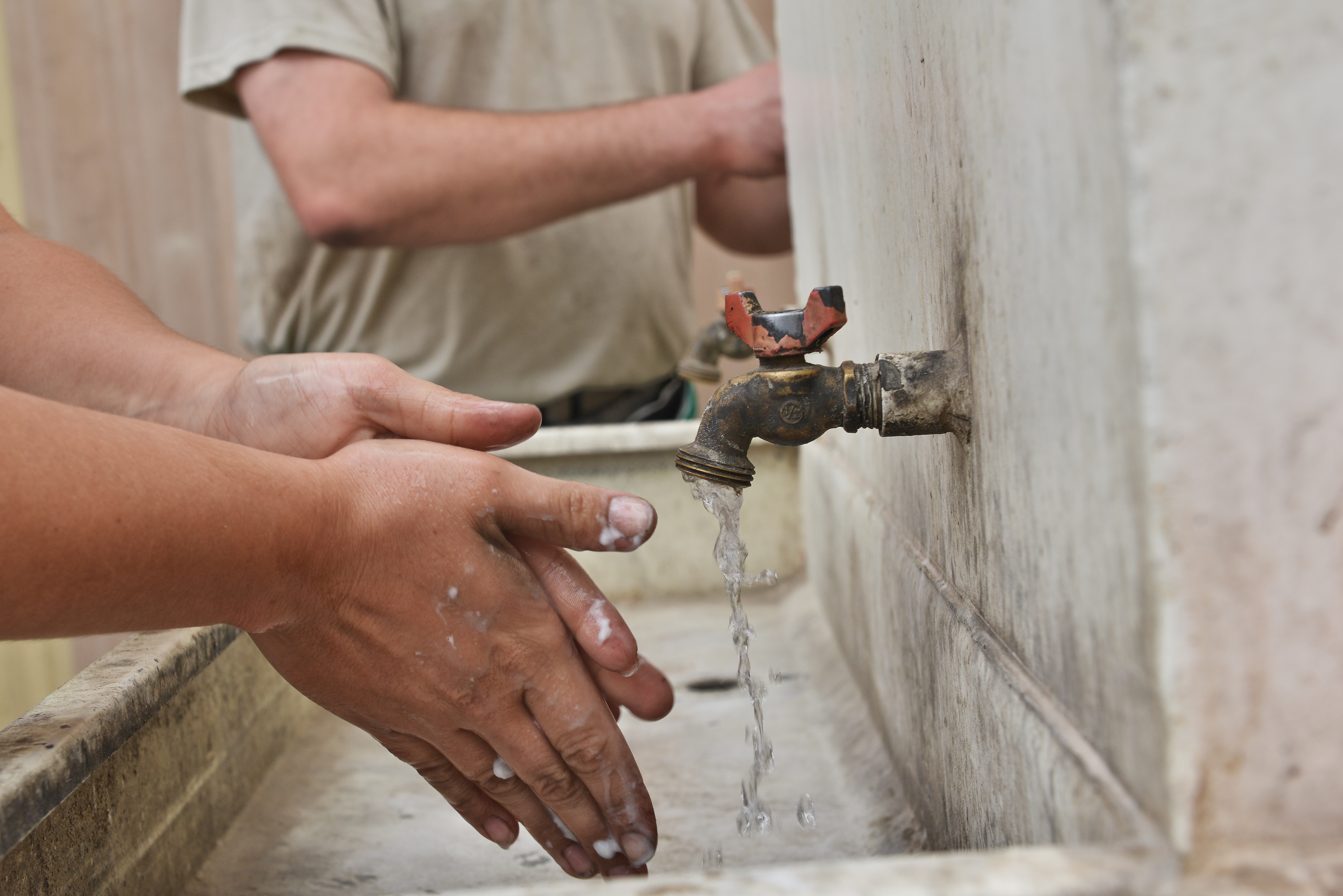 Aerospace ground equipment airmen wash their hands removing dirt, oil and chemicals that they have come in contact with to maintain sanitation and control the spread of germs or illnesses during shift breaks at Al Udeid Air Base, Qatar. Shift breaks and hours vary depending on the work to rest ration in heat stress conditions. During the summer months deployed airmen sometimes conduct their mission in wet-bulb globe temperature index of black flag, which is recommended to have a 15-minute work with a 45-minute rest schedule and a “buddy system” to keep their wingmen safe. (U.S. Air Force photo by Staff Sgt. Alexandre Montes)